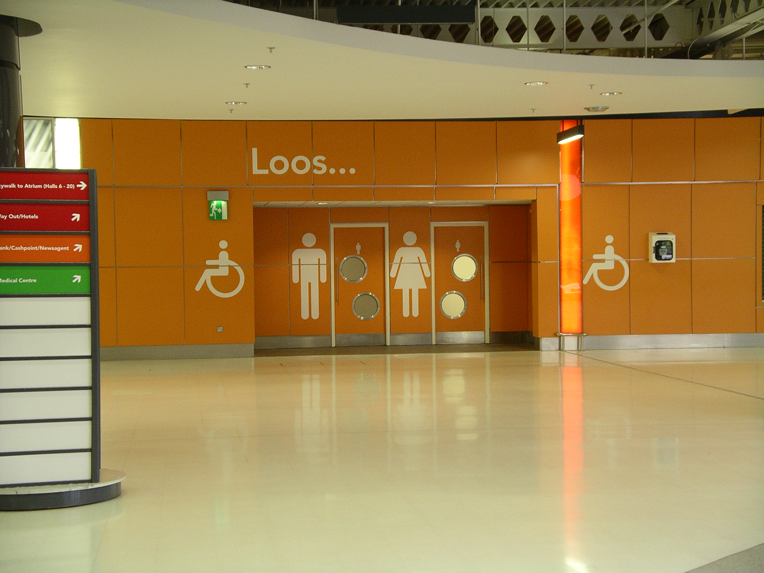 photo of outside of loos at the NEC, Birmingham, England.